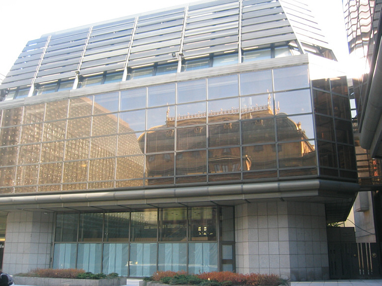 Praha, Czech Republic: Nová Scéna, home to the theater Laterna Magika (the mirroring image is the neighbouring historic building of Národní divadlo/National Theatre from 1883)